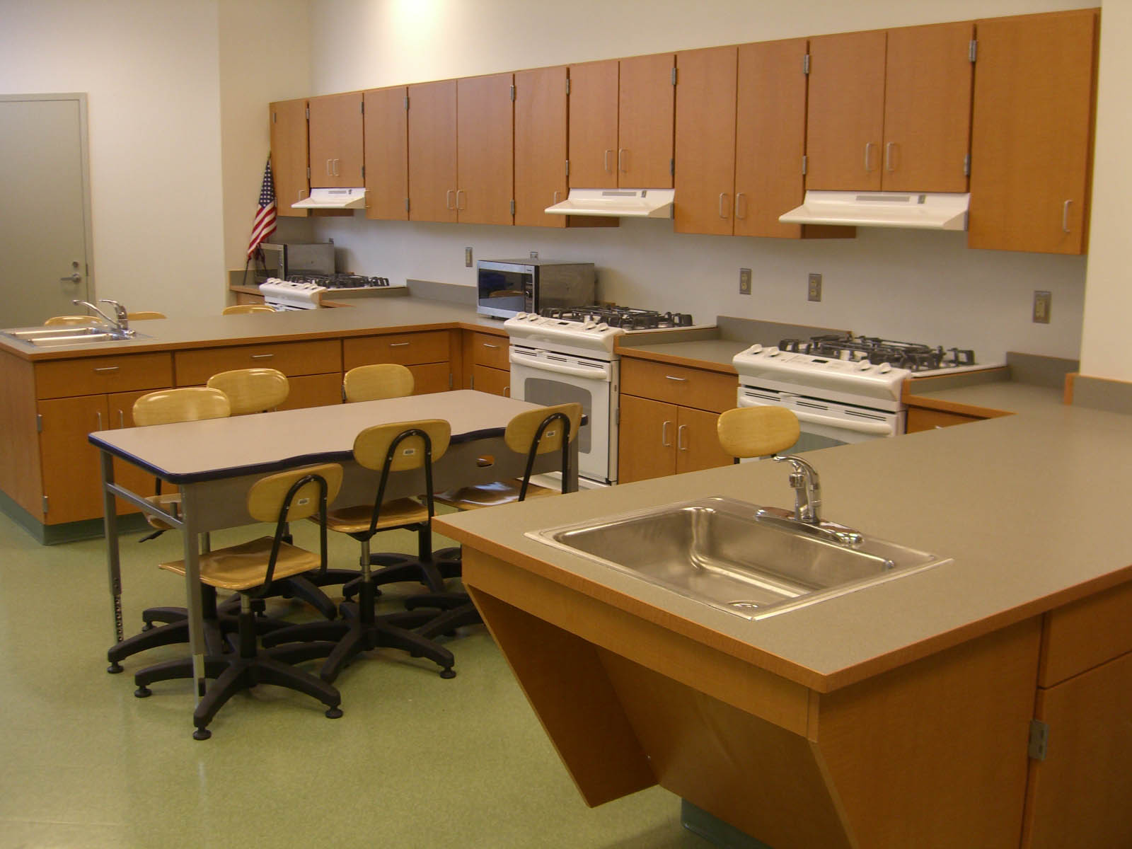 Home Economics classroom on the third floor of Union City High School in Union City, New Jersey. It is one of the few classrooms located on the third floor, which is occupied mostly by the school's rooftop athletic field. Many thanks to Mayor Brian P. Stack, Superintendent of Schools Stanley Sanger, and Director of Facilities Frank Acinapura for arranging my private tours of the school, and to Head of Security Joey Orefice for conducting them personally.